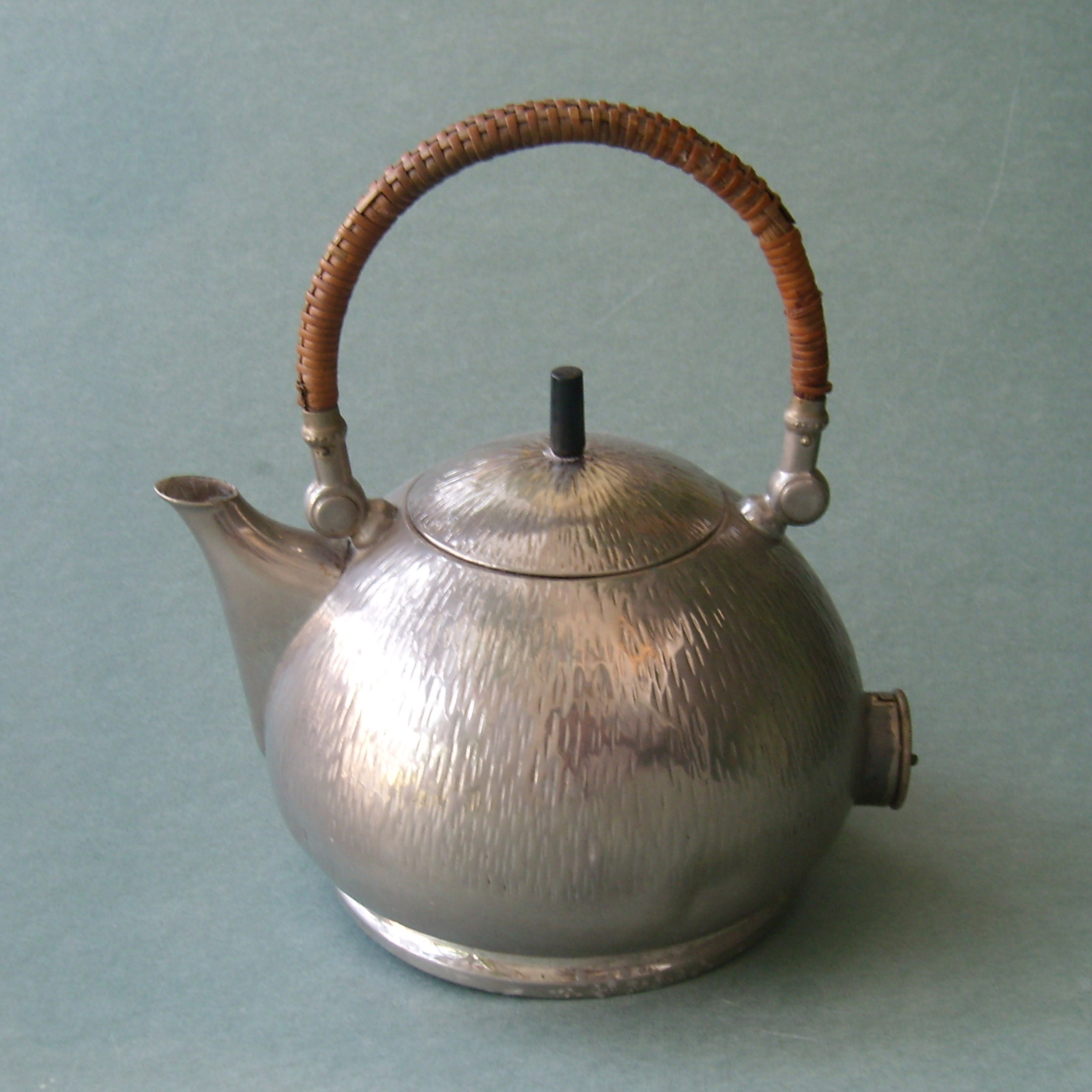 AEG electric water kettle designed by Peter Behrens in 1909. Item is part of my personal design collection